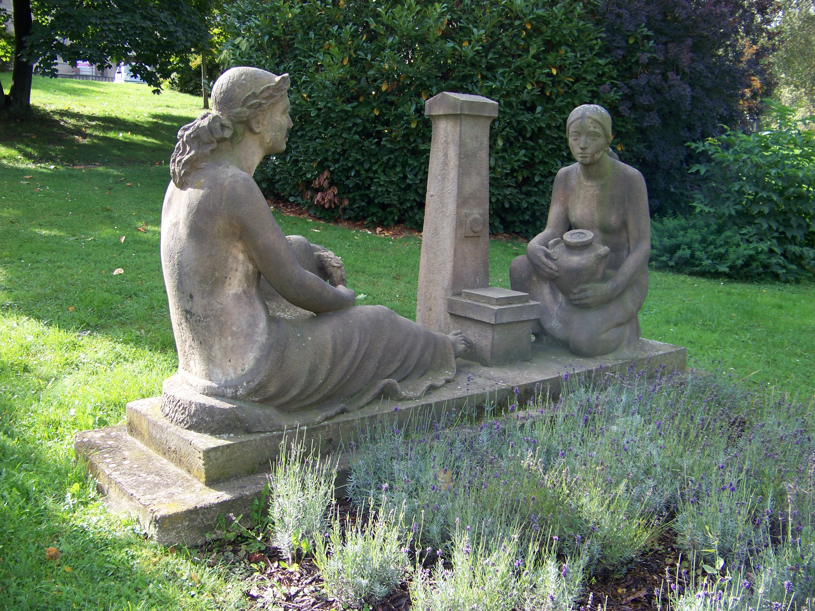 Prague-Dejvice, the Czech Republic. A park between Evropská and Velvarská street, statue Meeting at the well, Bedřich Stefan, 1972.